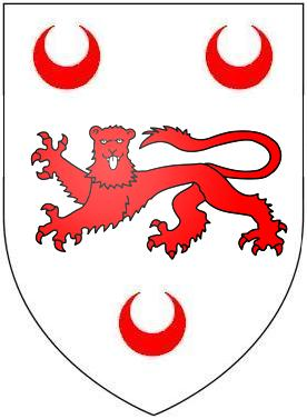 Arms of Dillon: Argent, a lion passant between three crescents gules.(Burkes Landed Gentry, 1937; Debrett's Peerage, 1967, Viscount Dillon)